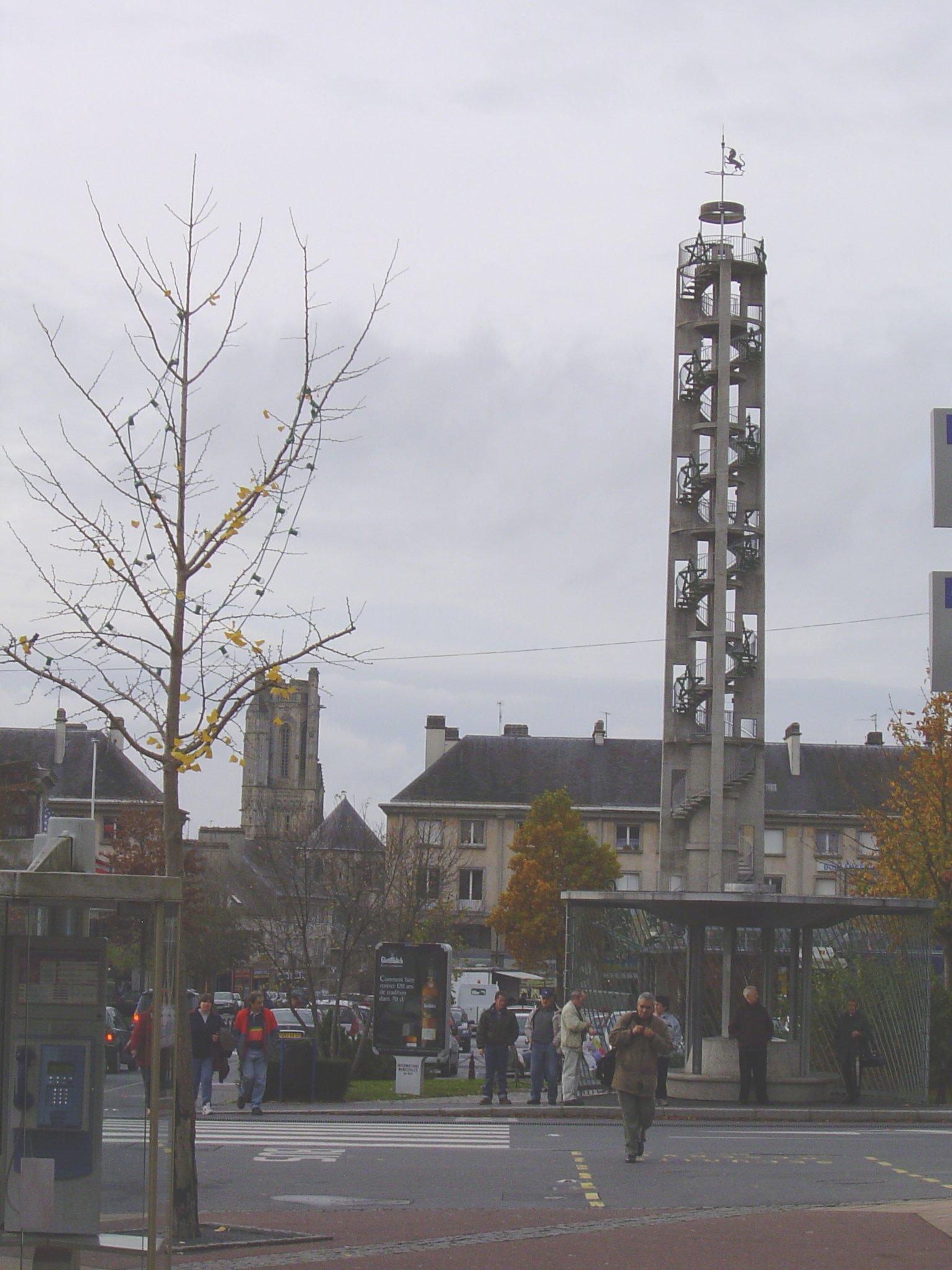 the belfry & Notre dame's tower